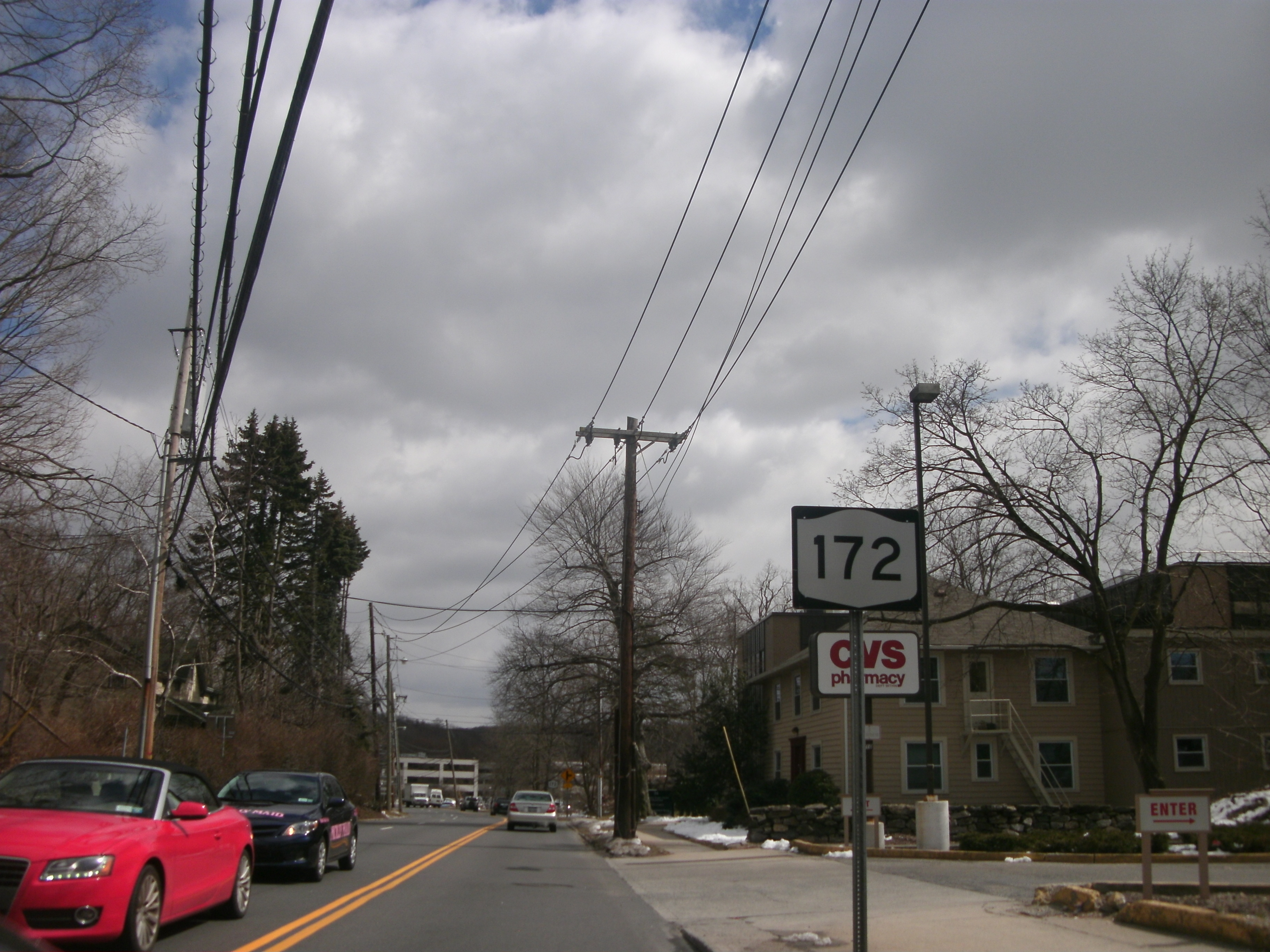 New York State Route 172 proceeding eastward from New York State Route 117 in Mount Kisco, New York.